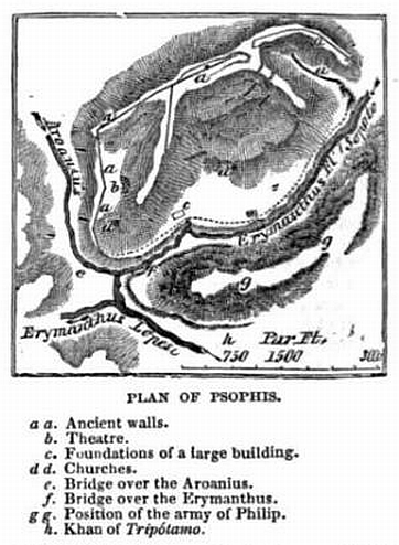 Illustration of city plan of Psophis, a fortified city in ancient Greece.